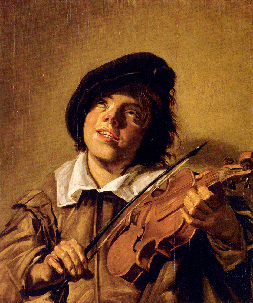 "Boy Playing A Violin" This image is available from the Netherlands Institute for Art Historyunder digital ID 242356. This tag does not indicate the copyright status of the attached work. A normal copyright tag is still required. See Commons:Licensing.